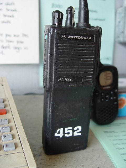 Motorola HT1000 two-way radio, as used during photographer's job at Paramount Canada's Wonderland, with an unidentified UHF personal walkie-talkie in the background.